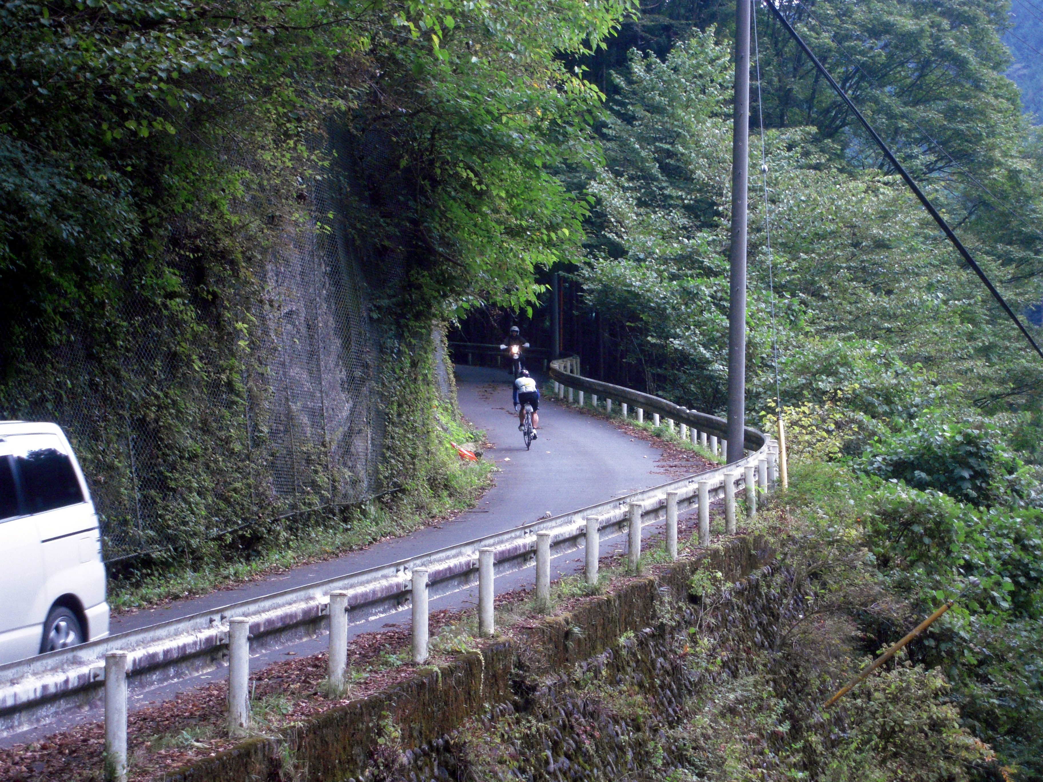 Fujikura habitation, Hinoharamura, Tokyo